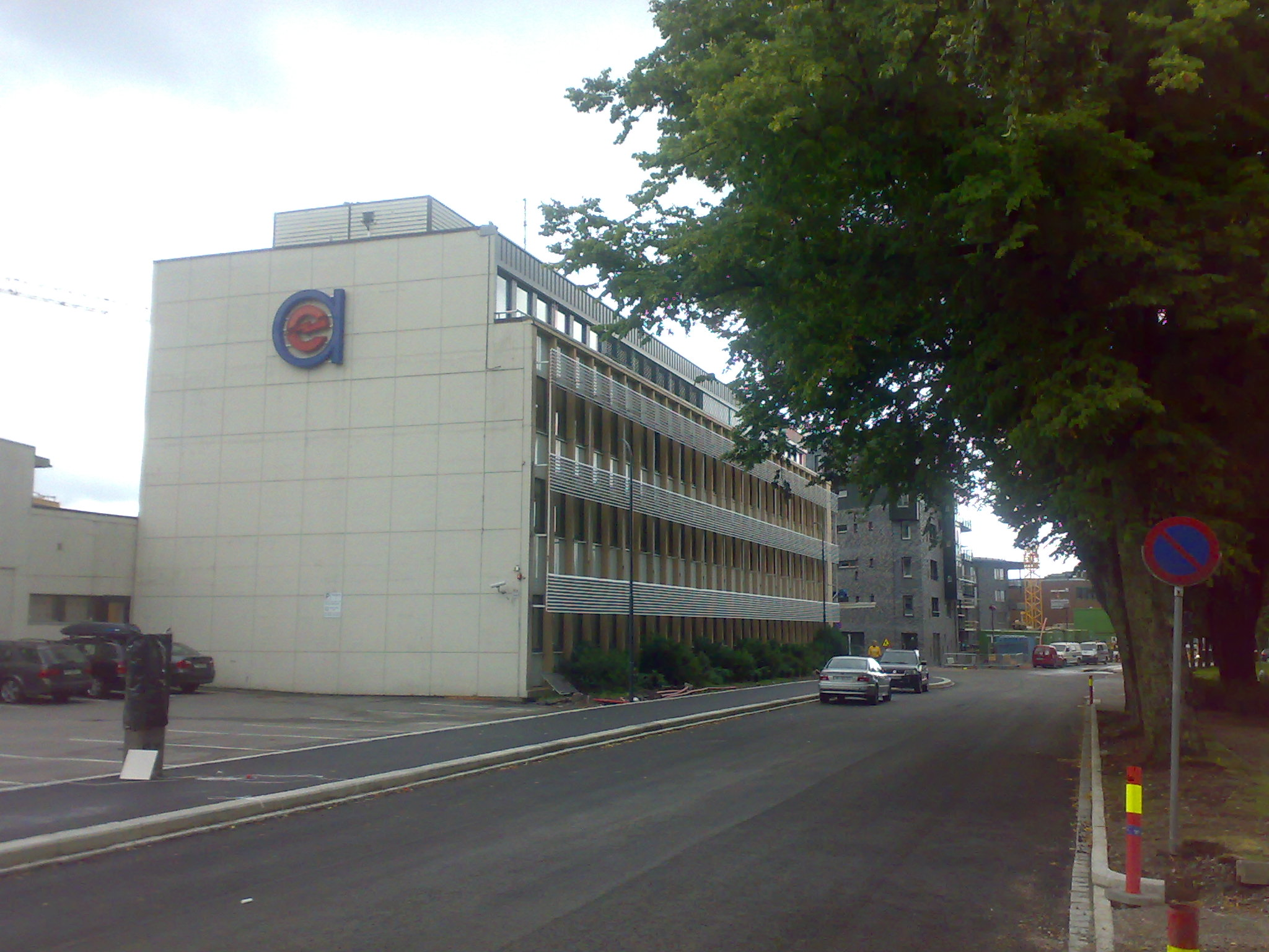 Agder Energi, Kristiansand, Norway